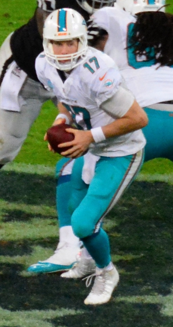 Raiders vs Dolphins - Wembley Sep 2014